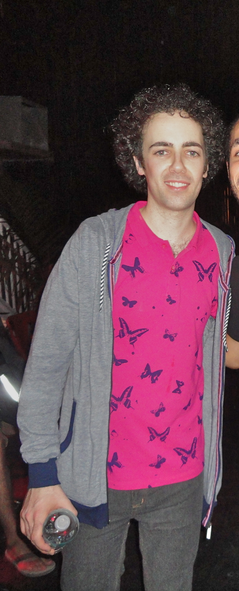 High Contrast at EVE Nightclub in Miami Florida, on 25 March 2011. The party was hosted during Miami Music Week, and was thrown by Hospitality Records and Embrace Miami.